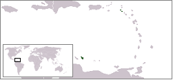 A map of the BES islands.